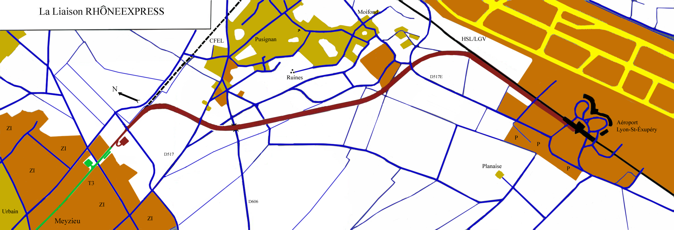 RHONEEXPRESS project. Also shown the CFEL